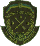 39th motorized infantry battalion sleeve patch (Ukraine)